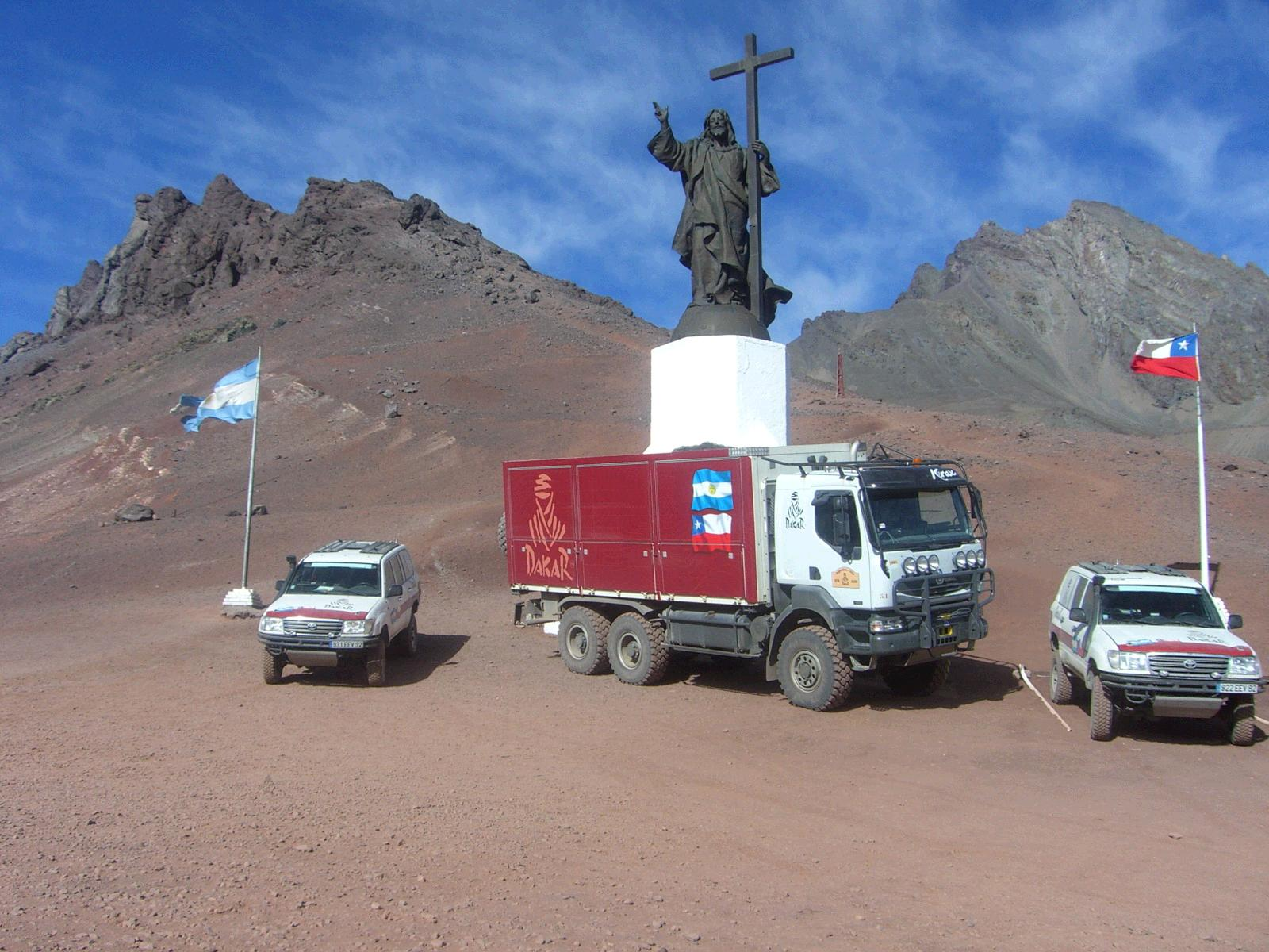 Rally Dakar Argentina-Chile-Argentina. Cristo Redentor, en la Cordillera de los Andes